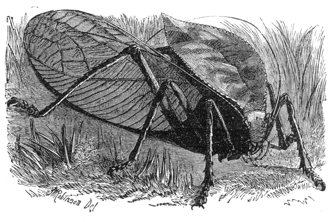 Caption: "The Great Shielded Grasshopper"